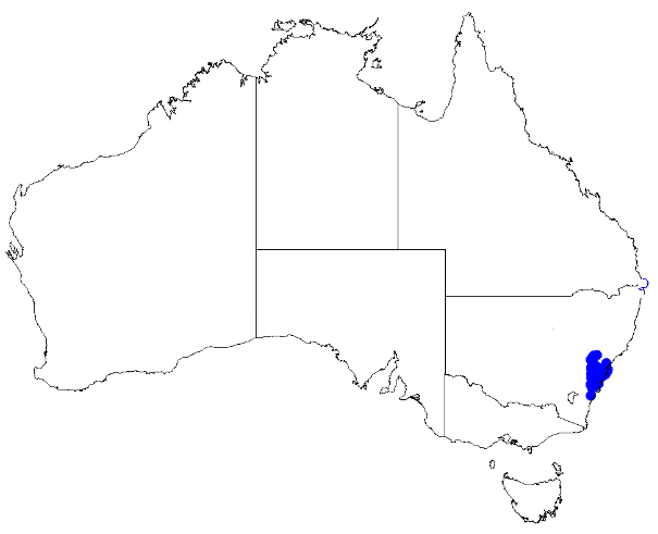 Boronia floribunda occurrence data downloaded from Australasian Virtual Herbarium 10 April 2019 using This download included all the environmental overlay fields and ALA's data checking fields including "cultivated / escapee", "outside expert range for species", "latitude is negated", "coordinates are transposed", "taxon misidentified", "habitat incorrect for species", and "suspected outlier" (over 600 fields). Deleting occurrences for which any of the above were true, 46 specimens with coordinates were deleted. However this did not remove all obvious spatial outliers some of which were later removed by hand..